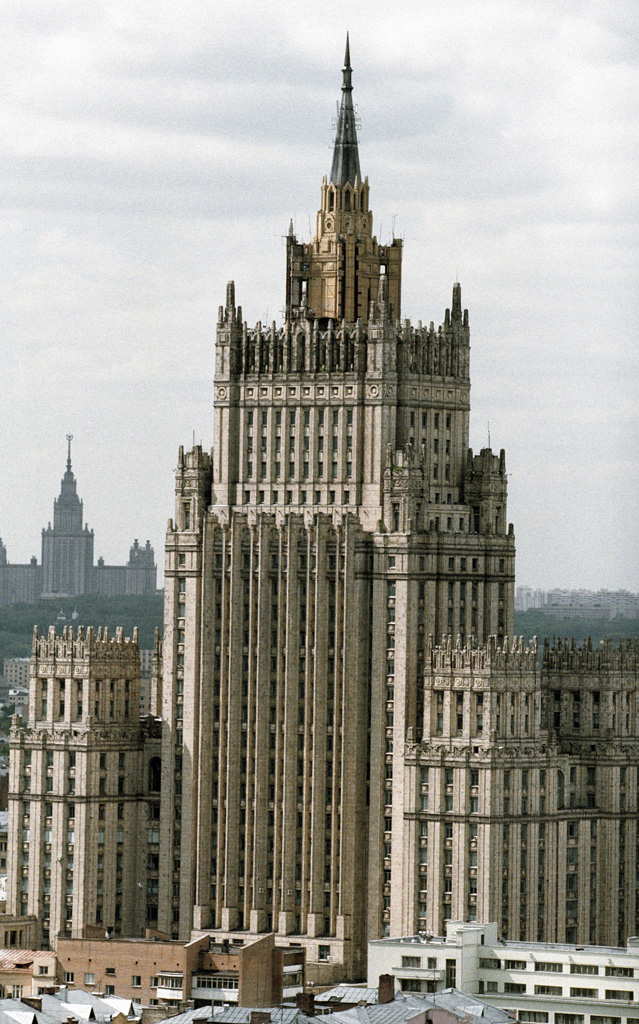 “The Foreign Ministry of Russia”. The Foreign Ministry of Russia